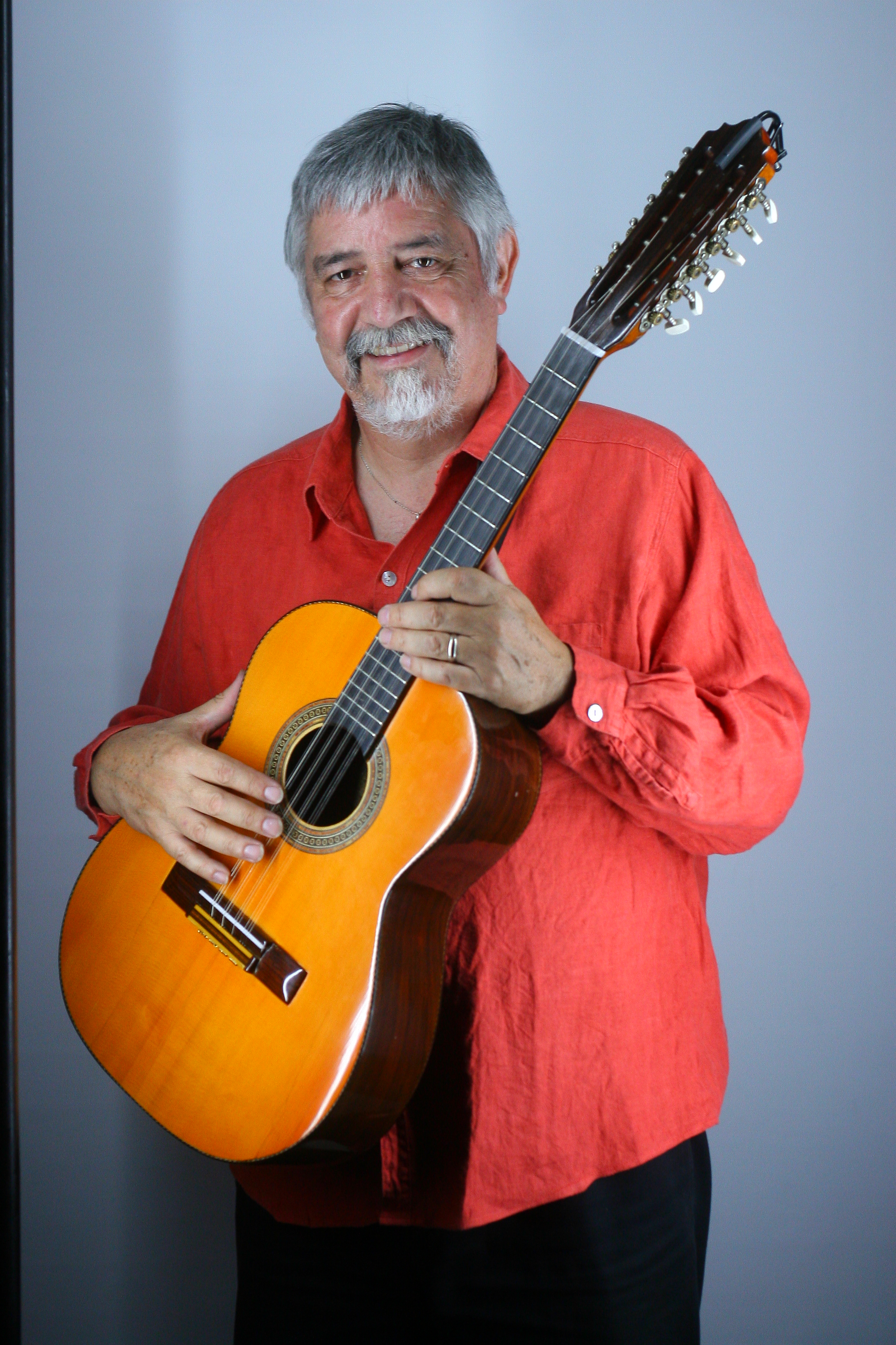 Jorge Coulon Larrañaga